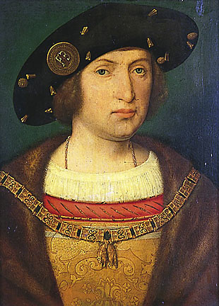 This image is available from the Netherlands Institute for Art Historyunder digital ID 51249. This tag does not indicate the copyright status of the attached work. A normal copyright tag is still required. See Commons:Licensing.